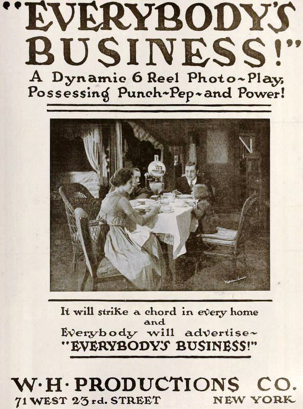 Ad for the American film Everybody's Business (1919) with Alice Calhoun and Charles Richman, page 1007 of the august 2, 1919 Motion Picture News.